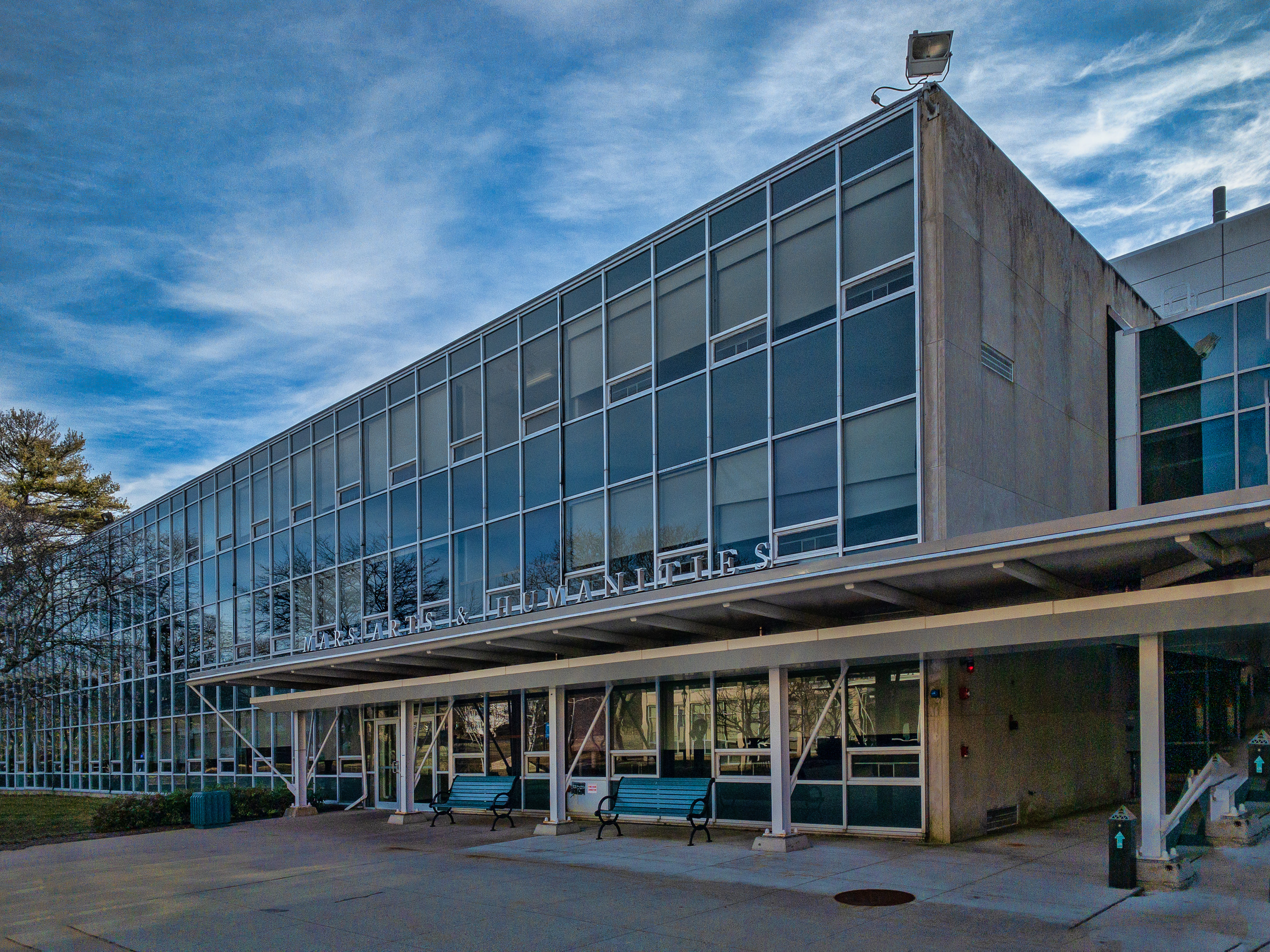 Mars Arts & Humanities, Wheaton College, Norton Massachusetts